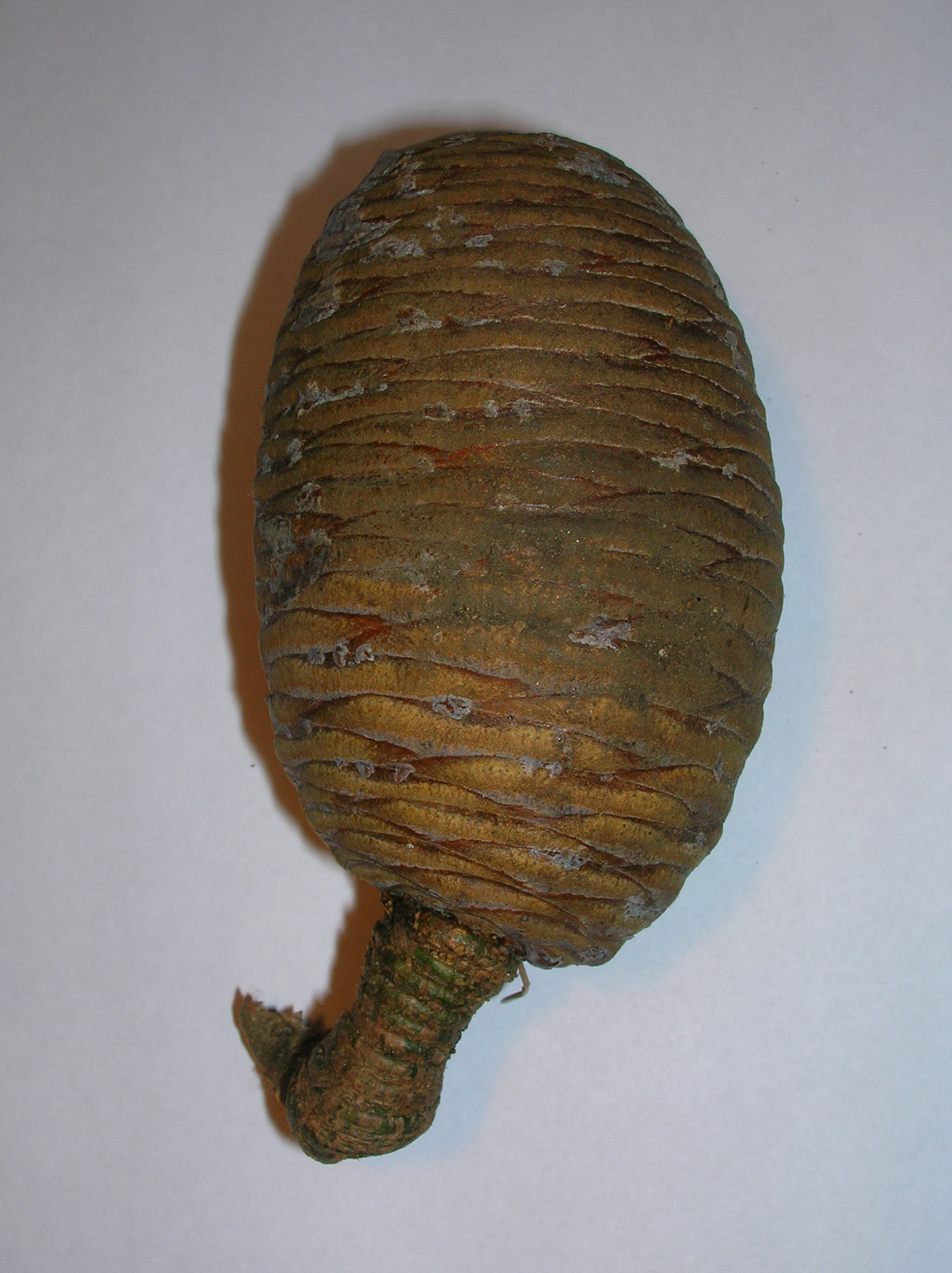 Cedar of Lebanon pine cone, Speir's school, Ayrshire, Scotland.